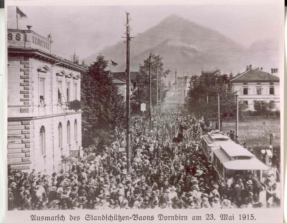 The "Standschützenbatallion Dornbirn" on May, 23rd 1915 is leaving the Austrian city of Dornbirn heading to the southern front of World War I.